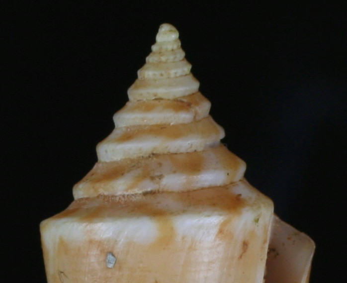 Conidae: Conus nybakkeni (Tenorio, Tucker & Chaney, 2012) (synonym: Gradiconus nybakkeni)